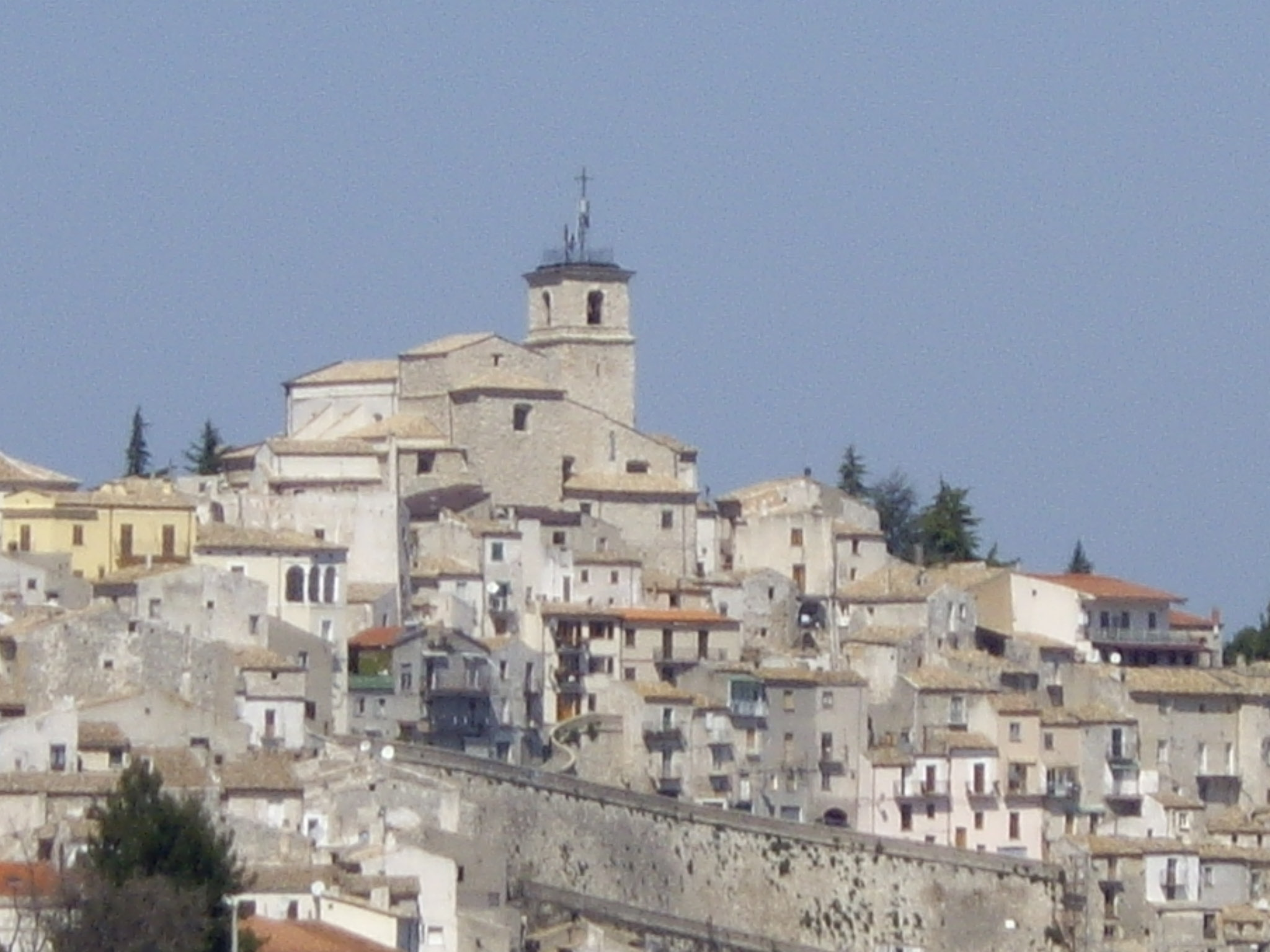 Panoramic view of the old part of Gissi (province of Chieti, Italy)